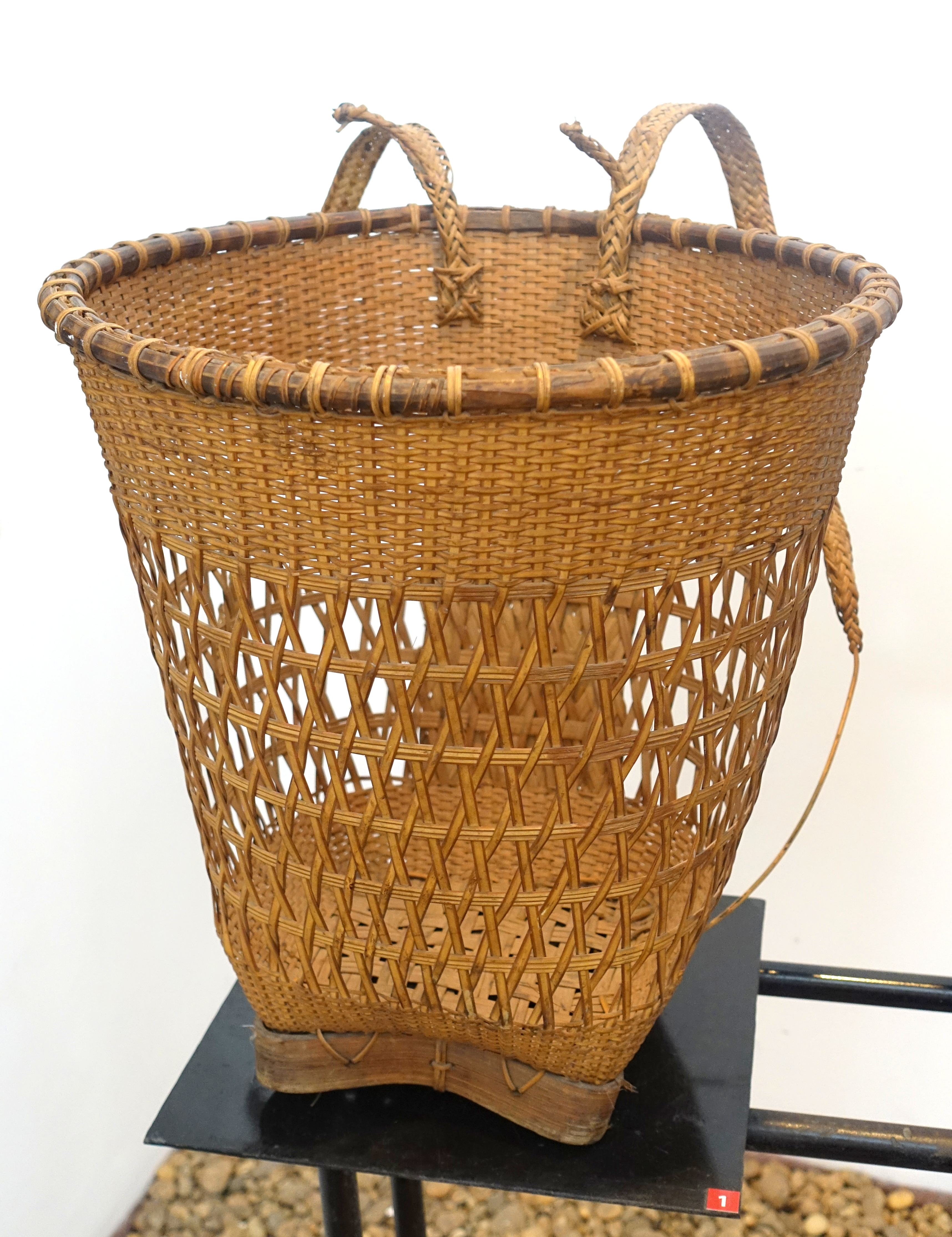 Exhibit in the Vietnam Museum of Ethnology - Hanoi, Vietnam.